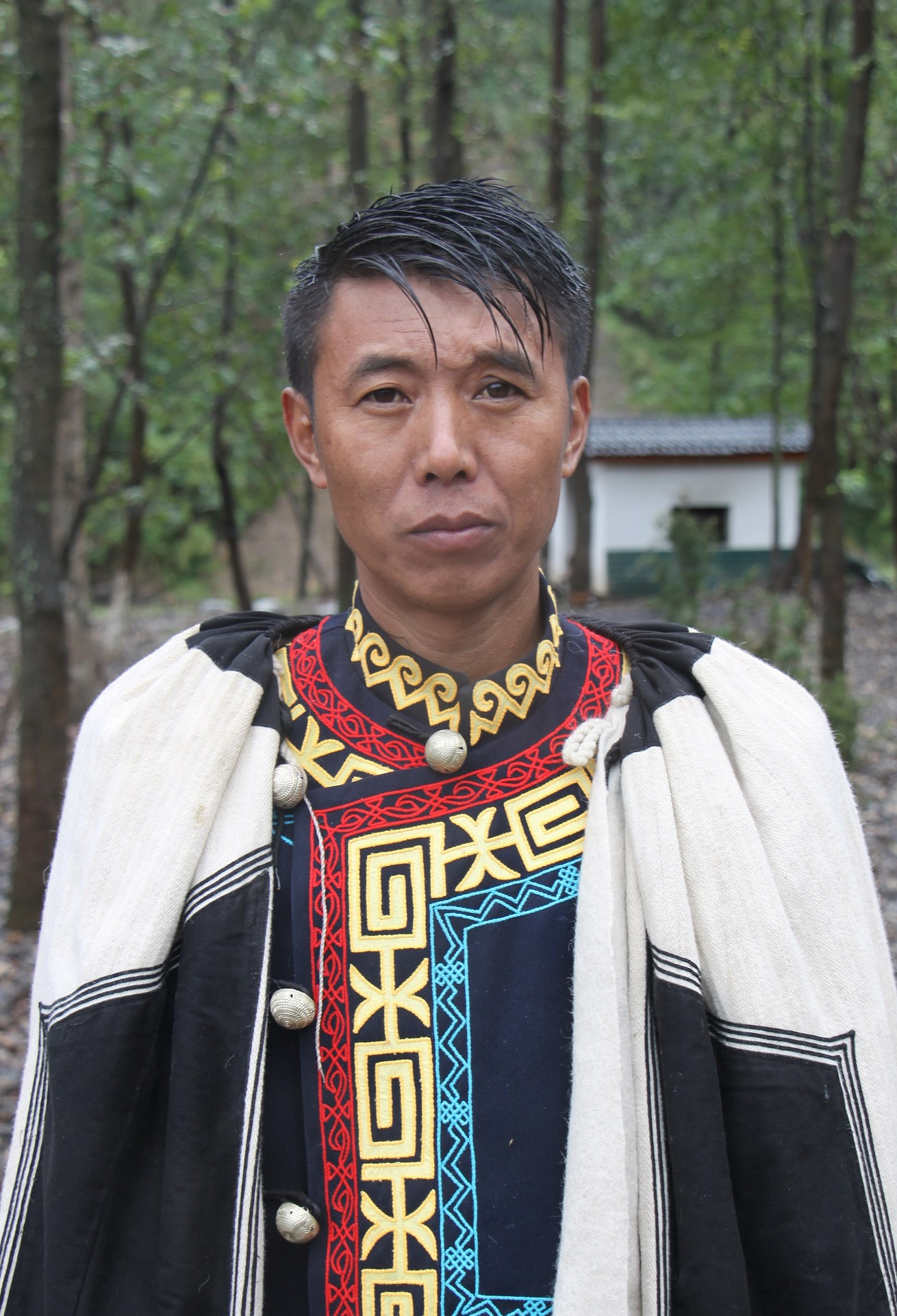 00 Yi minority in traditional